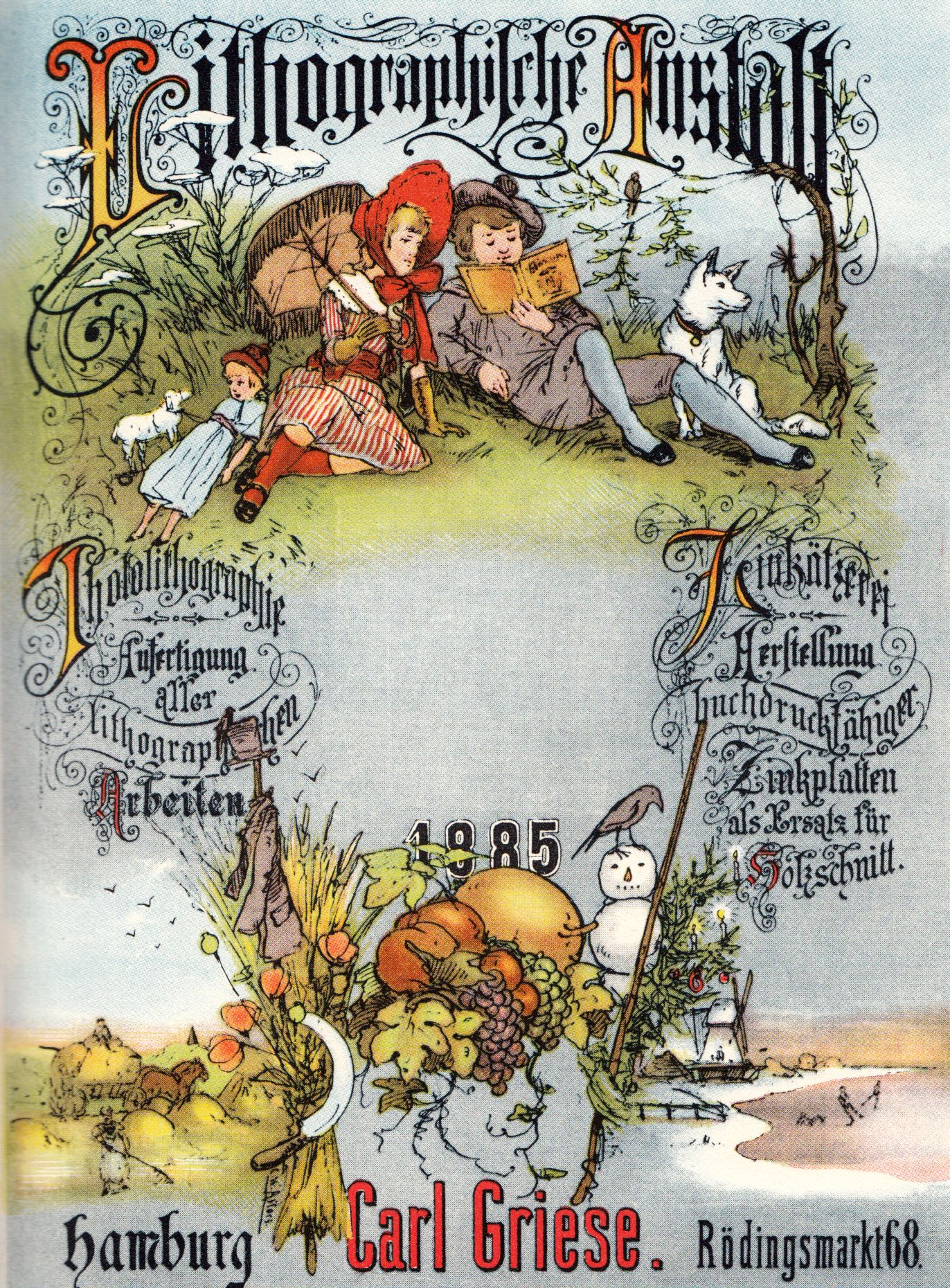 Poster for Carl Griese print, Hamburg, Germany.